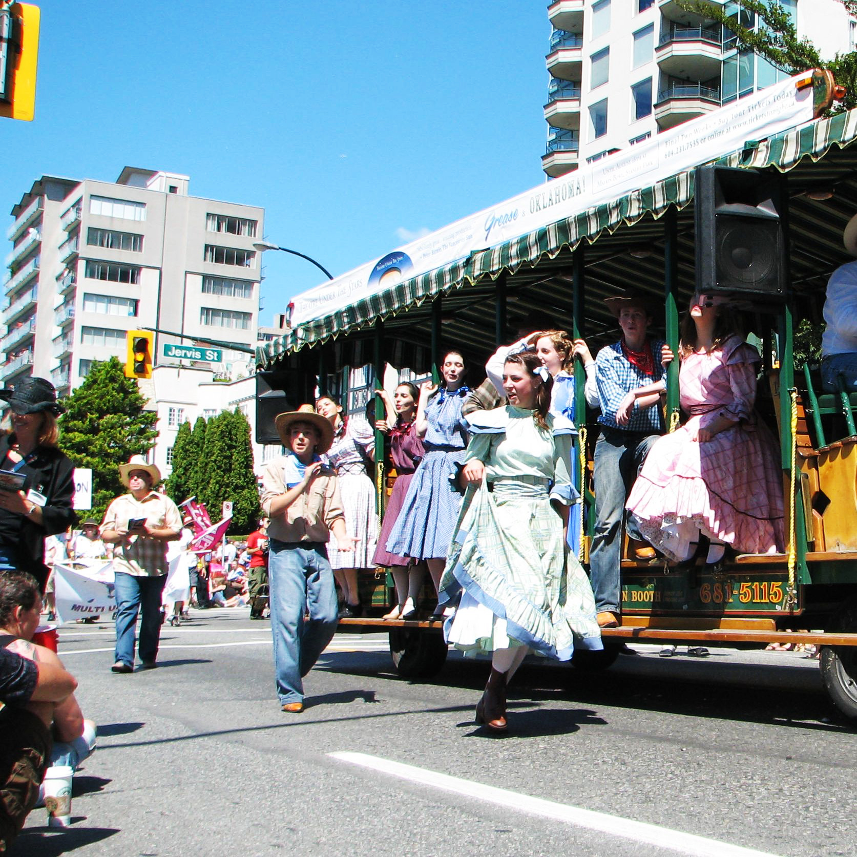 Theatre Under the Stars at Vancouver Pride Parade 2007